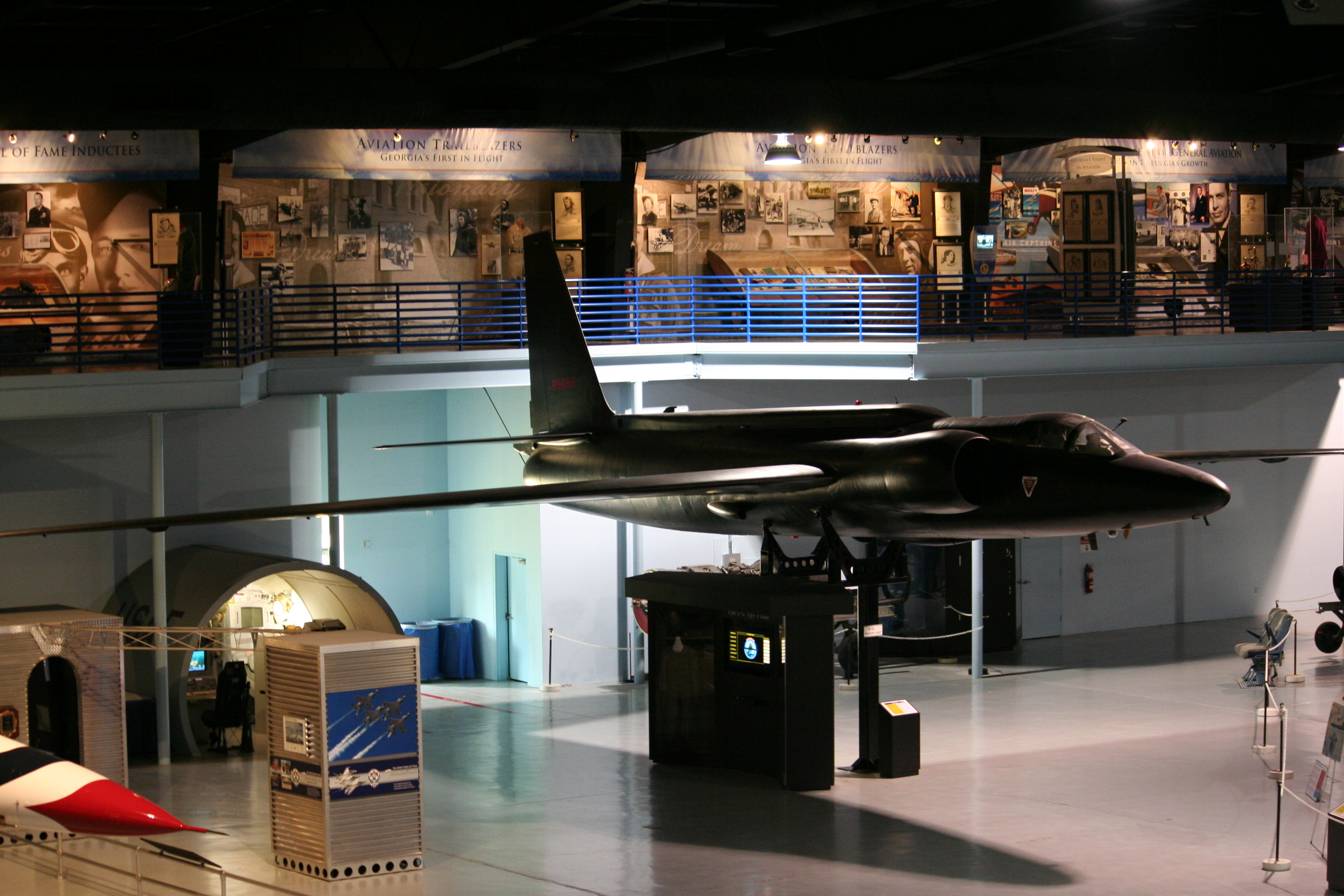 Lockheed U-2D inside hanger at Robins AFB Museum of Aviation